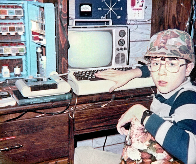 This was the computer, my first computer, that forever changed my life and set me on the path I'm on today. I think I was in 7th grade in this photo. After the VIC-20 followed the C=64, then my favorite, the C=128. When I went into the Navy I had to sell off my computers, but after my training I got an Amiga 500. However, I still have fond memories of those early days of sitting down with a Commodore magazine and typing in a program for hours to play a game or do something cool. There was something magical about those days, so I was thrilled when I found this old photo of those great days!